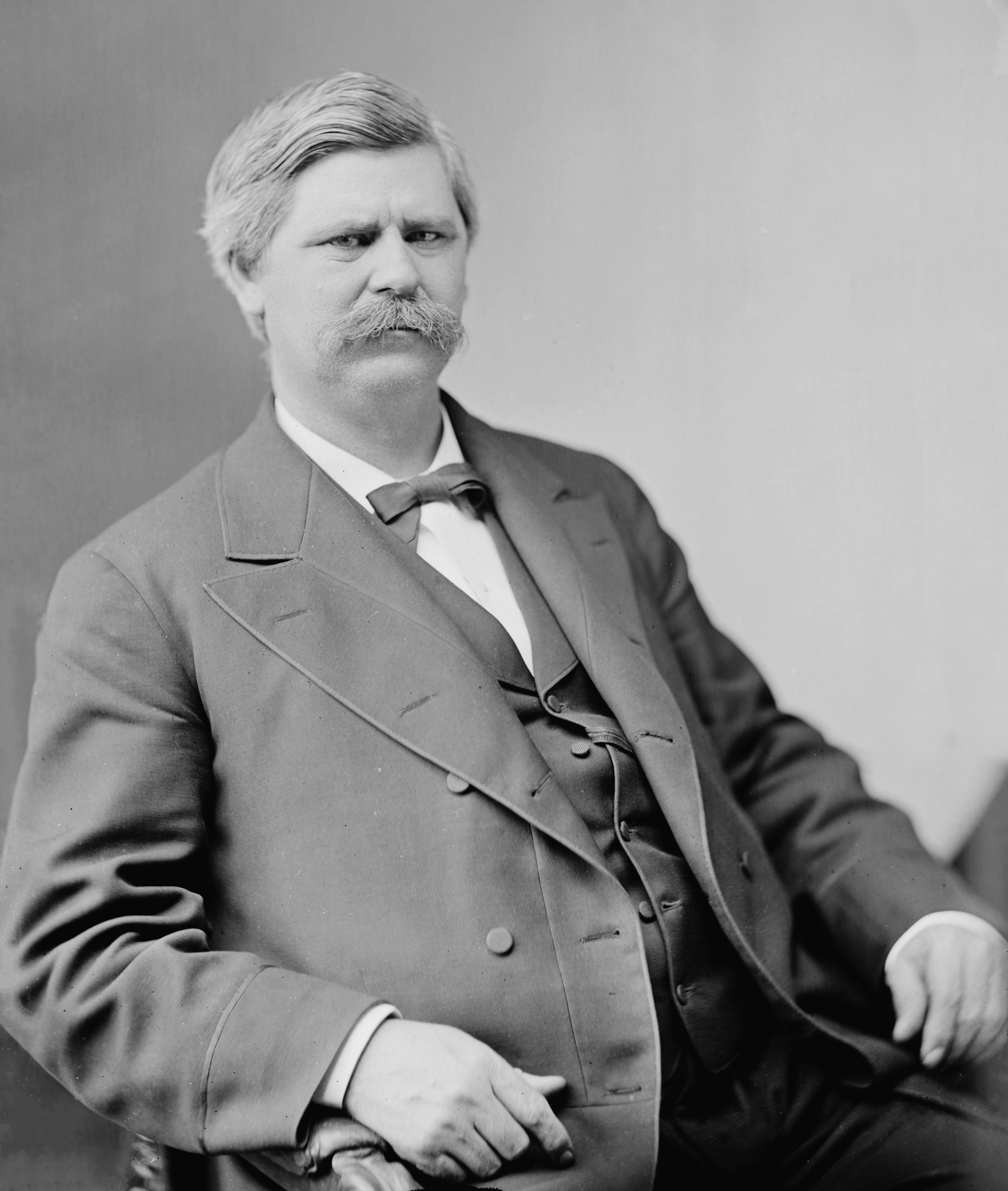 Zebulon Baird Vance. Library of Congress description: "Hon. Zebulon Baird Vance of N.C."